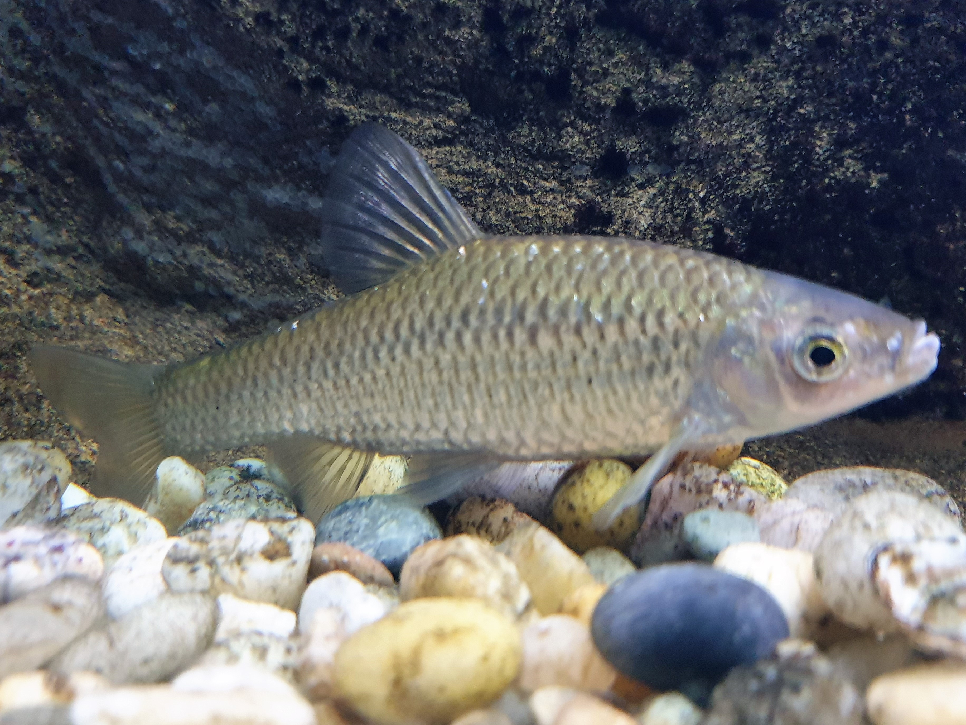 Stone moroko or topmouth gudgeon (Pseudorasbora parva) at the Bodorka Balaton Aquarium in Balatonfüred, Hungary.